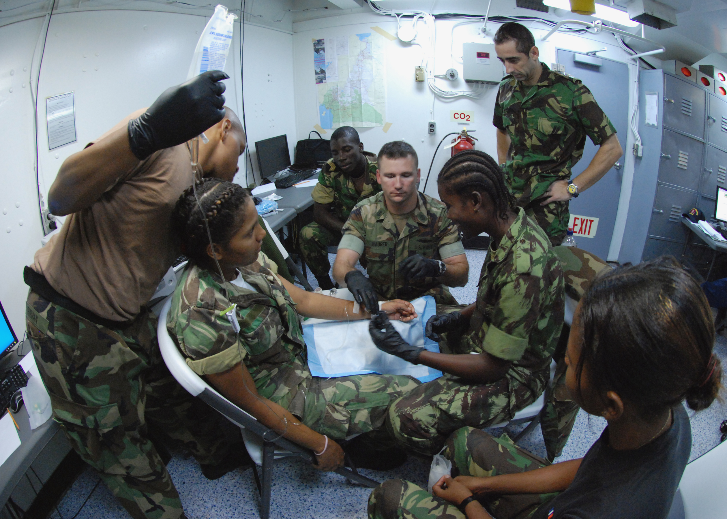 SAO TOME (Jan. 23, 2008) Chief Hospital Corpsman Chris Maurer demonstrates to Sao Tomain military personnel the procedure for inserting an intravenous drip into a person's vein. This training is part of Africa Partnership Station (APS), the Navy's new cooperative maritime strategy, and is a multi-national effort to bring the latest training and techniques to maritime professionals in nine West and Central African countries. U.S. Navy photo by Mass Communication Specialist 3rd Class Eddie Harrison (Released)